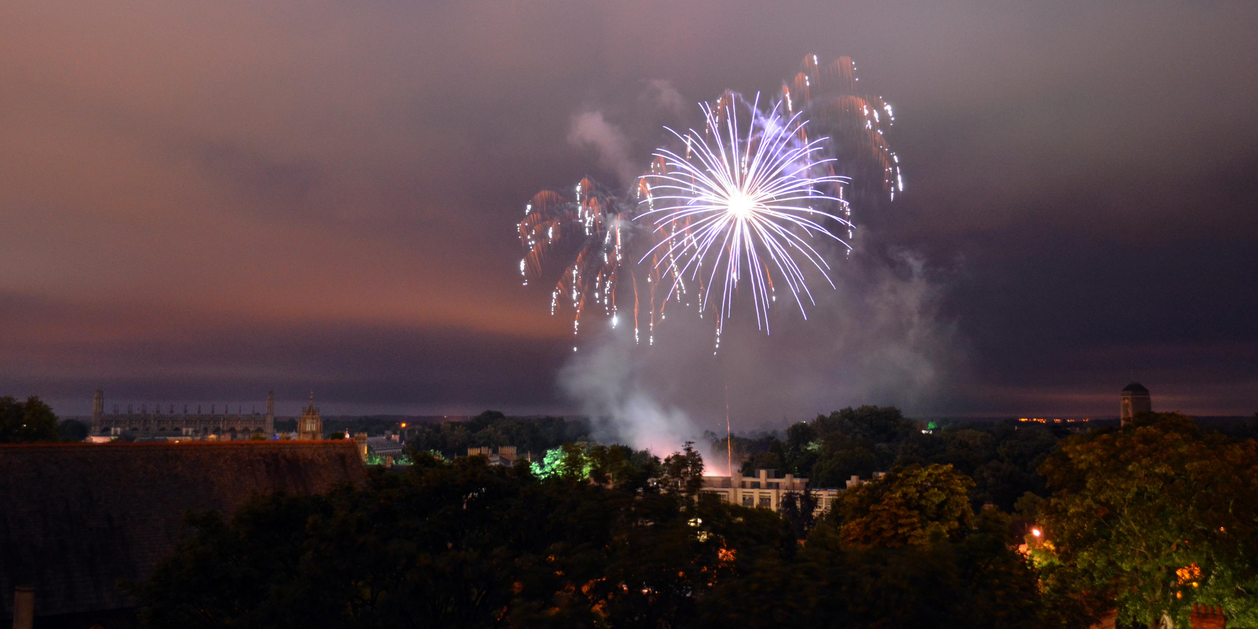 Fireworks of the Cambridge University St John's College May Ball 2014 viewed from Castle Mound.